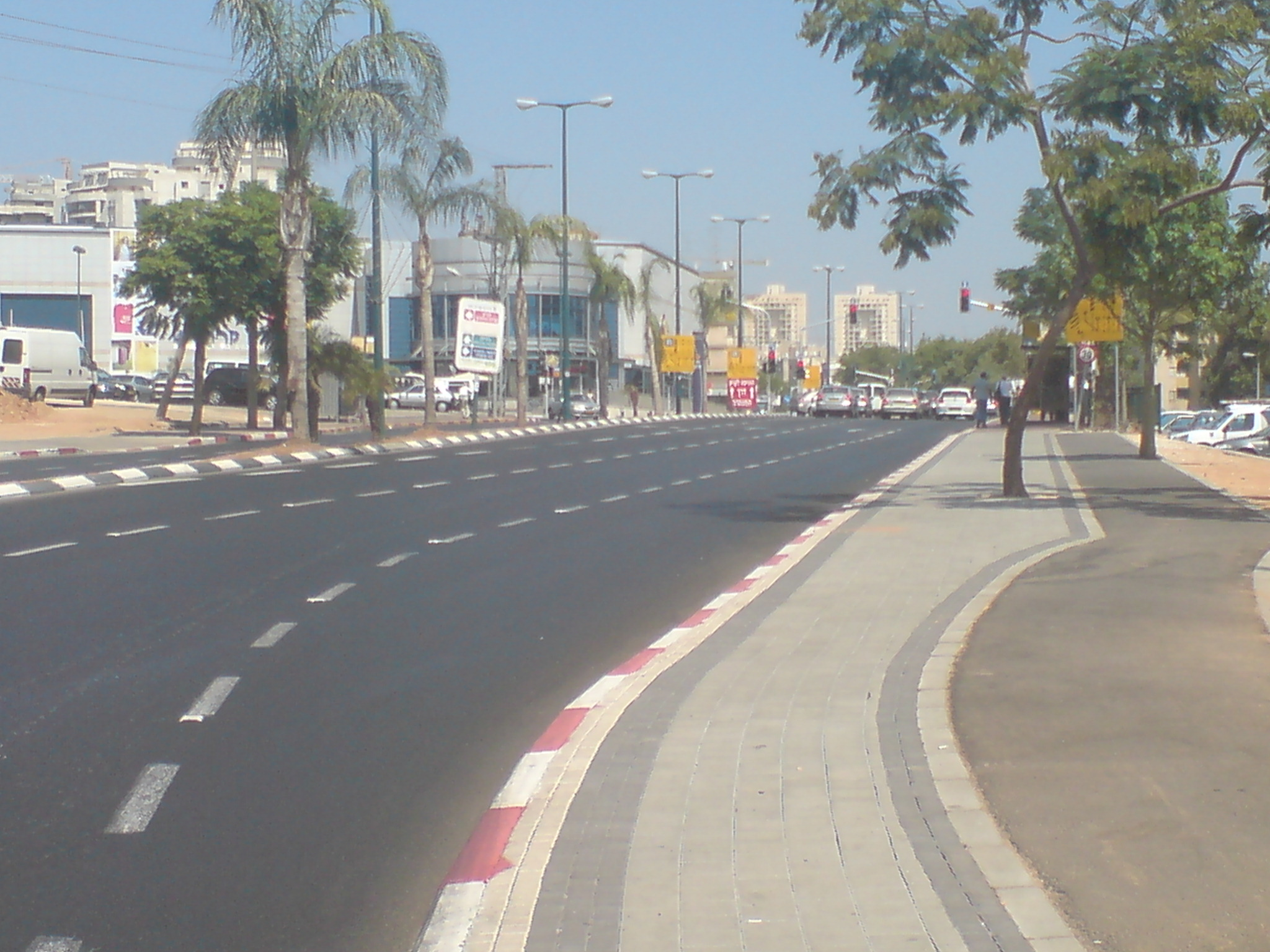 Levi Eshkol's Street, Kiryat Ono.